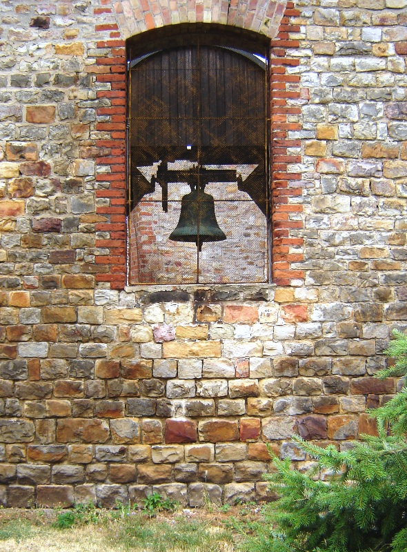 Bell of the church in Gommern-Ladeburg (Saxony-Anhalt)